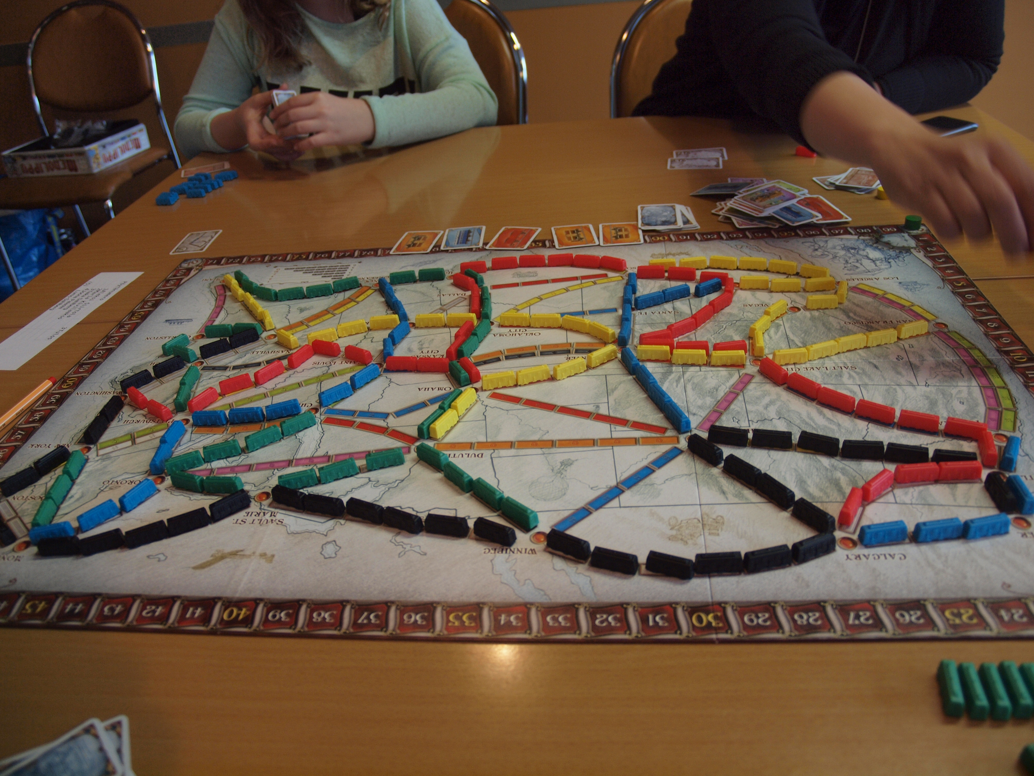 A game of Ticket to Ride at the end of the game, played at the Ticket to Ride Finnish Championships at JunaCon V in Turku, Finland. Winning the Finnish Championship qualifies for entry to the World Championship in Paris, France, in autumn. Winning the World Championship awards a luxury train trip in southeast Asia for two people for one week.